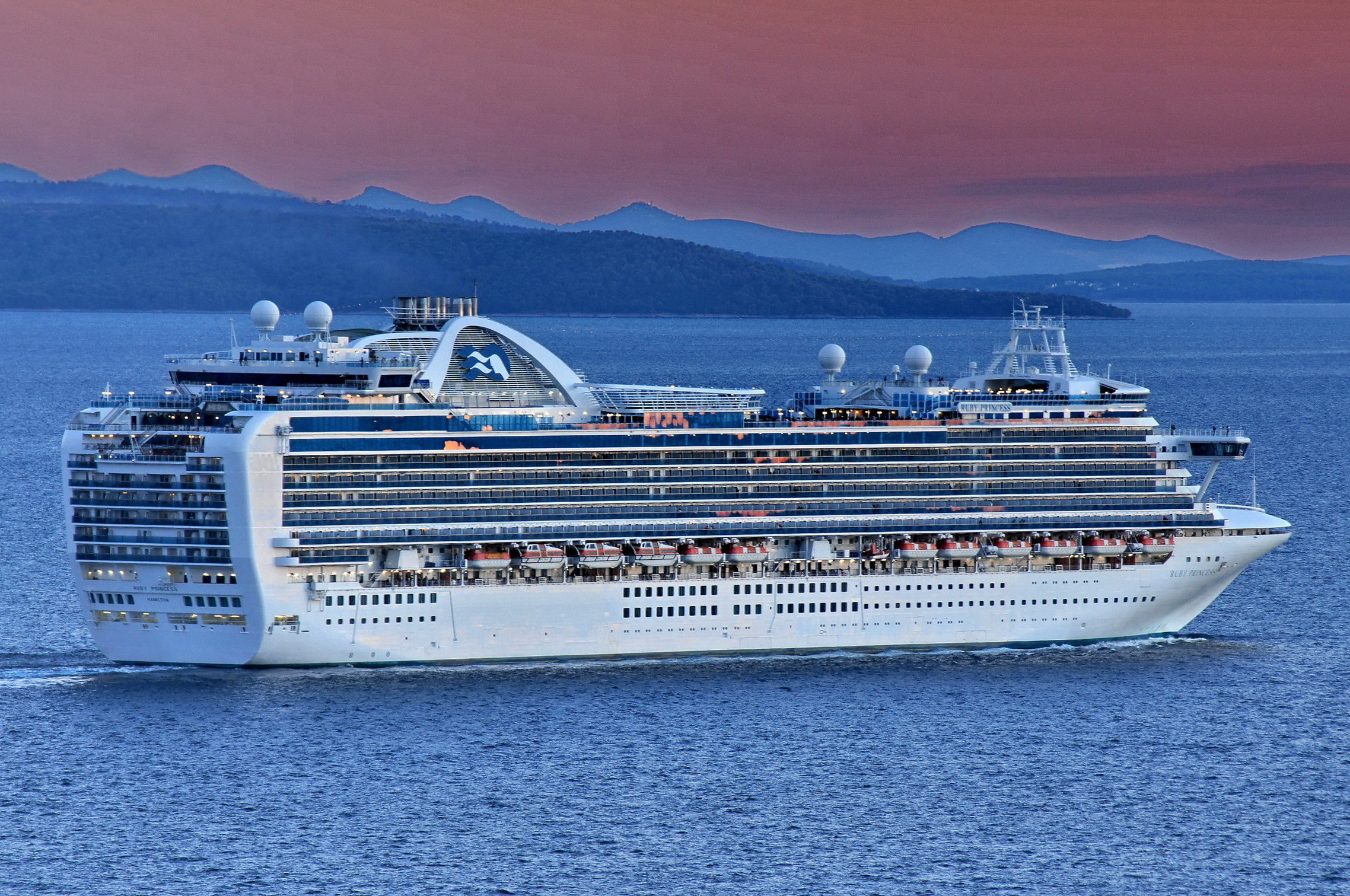 Ruby Princess (ship, 2008) IMO 9378462; in Split, 2011-10-17; departing